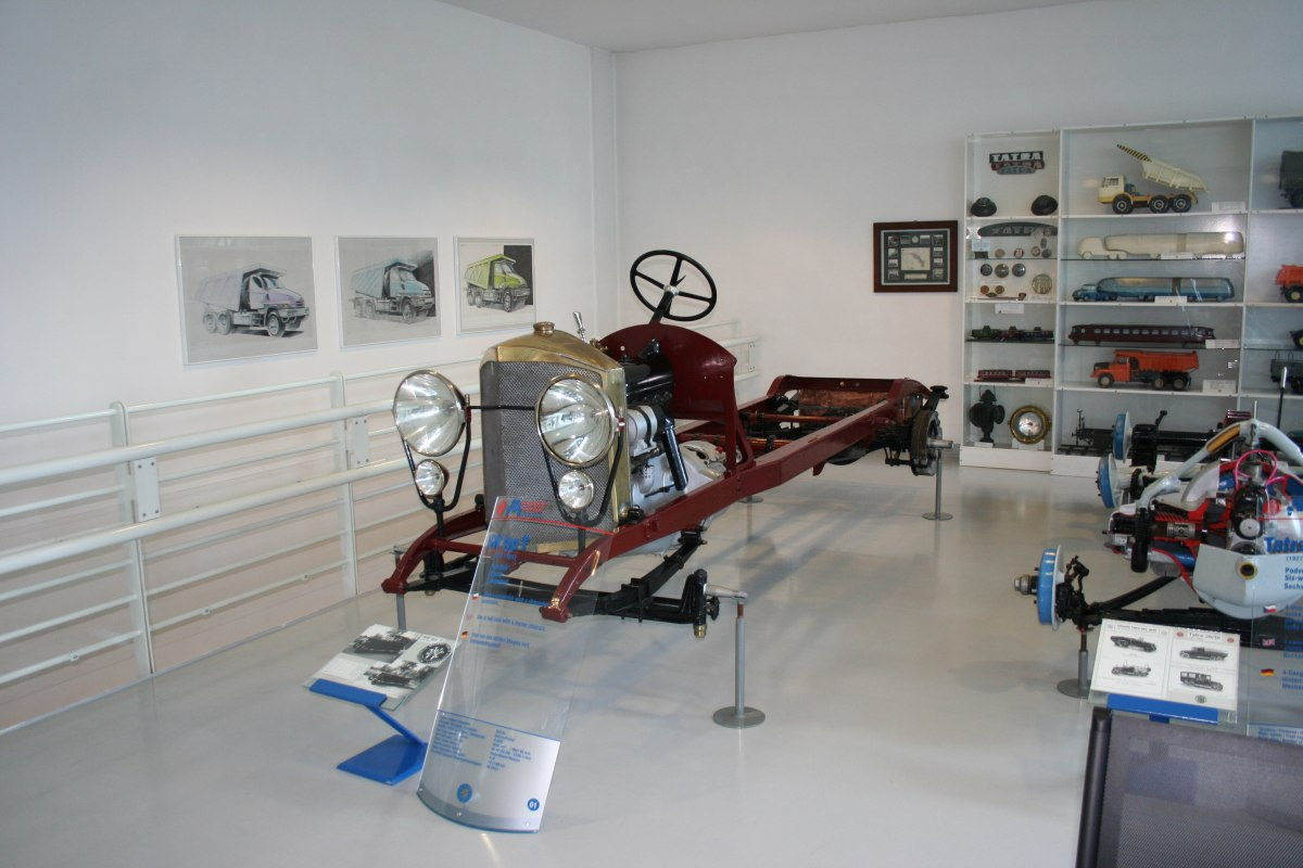 NW type T chassis at Tatra museum